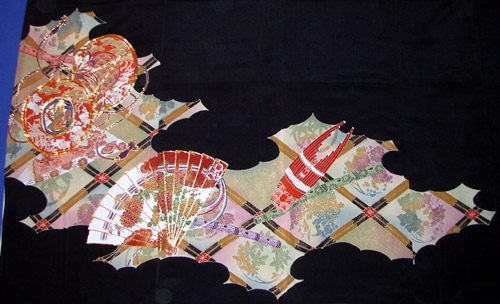 View of kurotomesode (married woman's most formal kimono) design, with panels opened. The design is of gagaku (Japan's traditional court music) instruments.